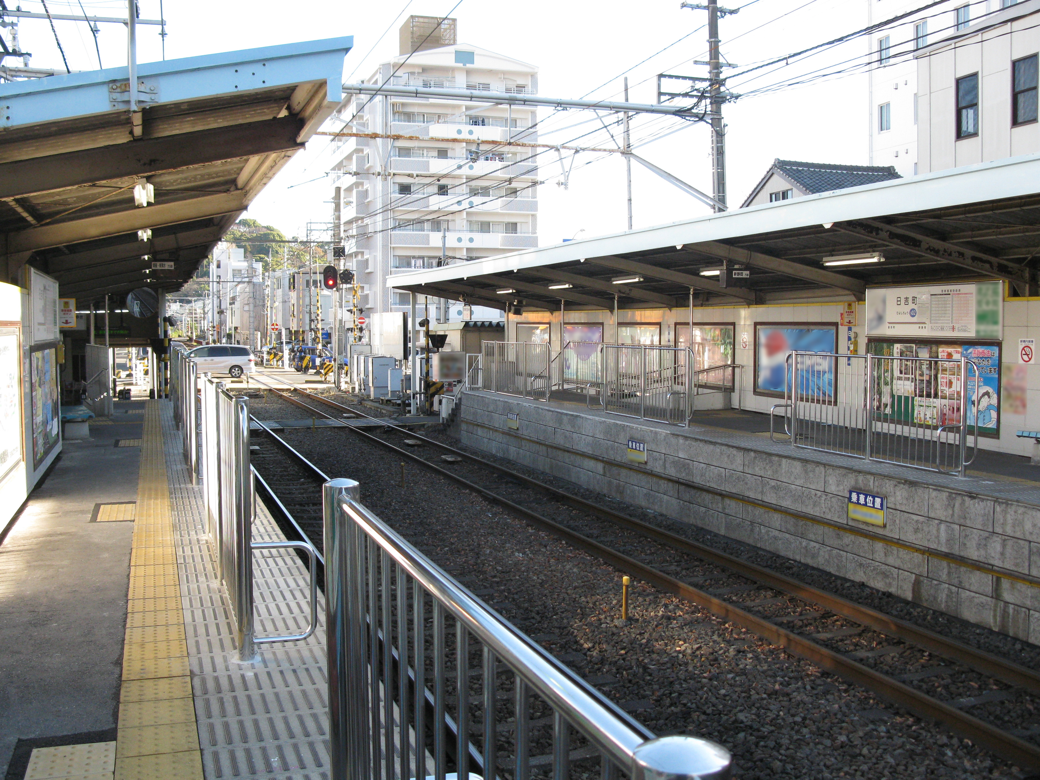 Hiyoshichō Station platform (Shizuoka Railway Shizuoka-Shimizu Line)